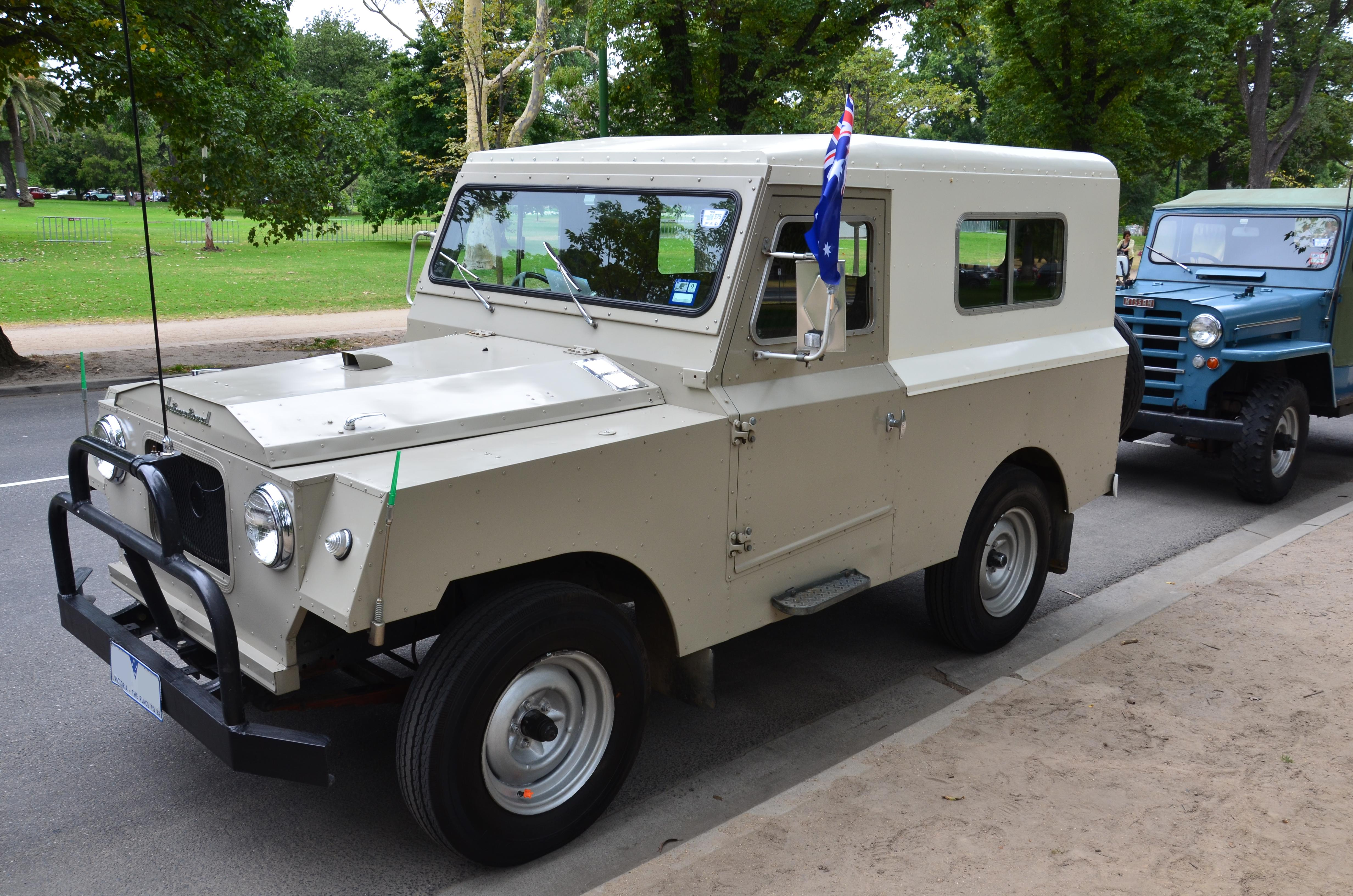 International Utility 1953. Picture taken in Melbourne 2012 to 2013. Source by .au